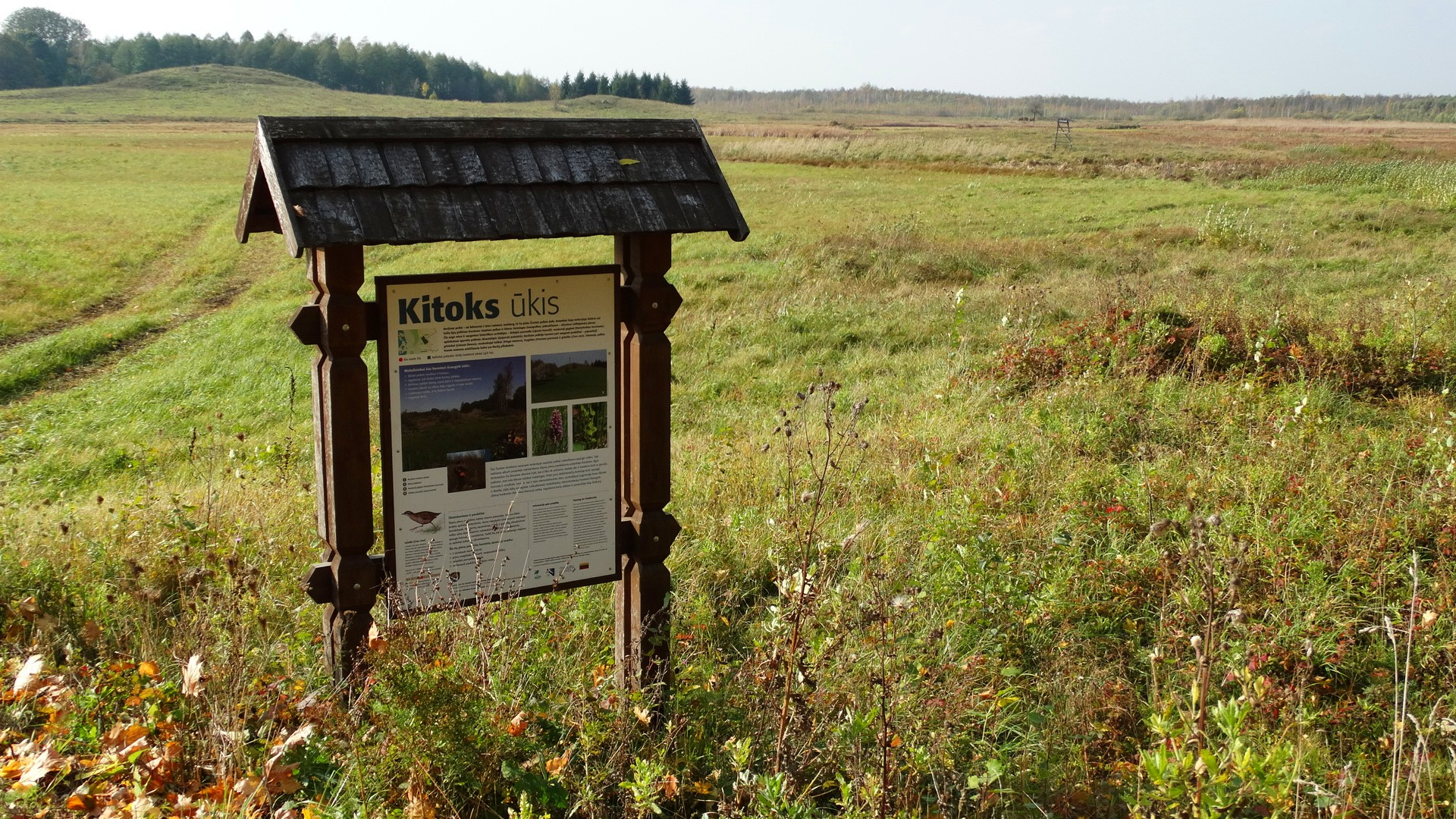 Wetland, Riečiai, Marijampolė district, Lithuania